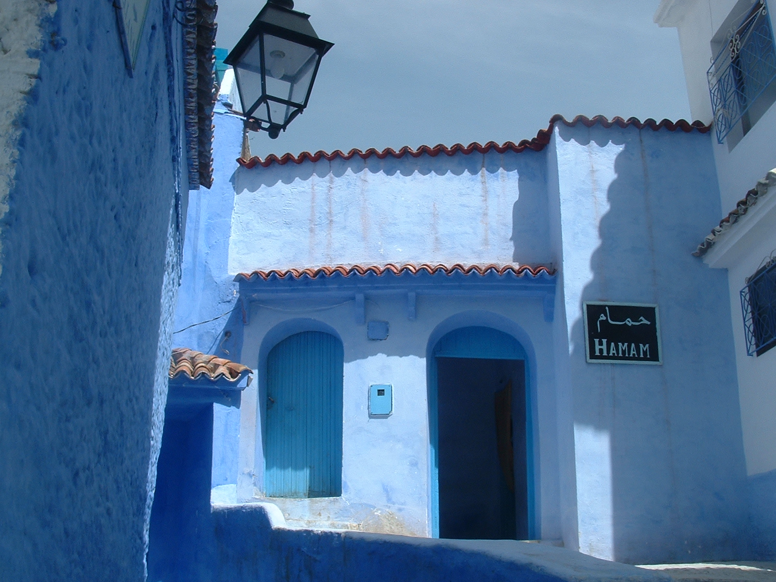 Chefchaouen (Morroco); Hamam; A typically blue-rinsed hammam in Chefchaouen Chefchaouen (Maroko); Hamam; Typická modro-bílá omítka ve městě Chefchaouen Picture from enwiki ( Took by user Tomkeene (